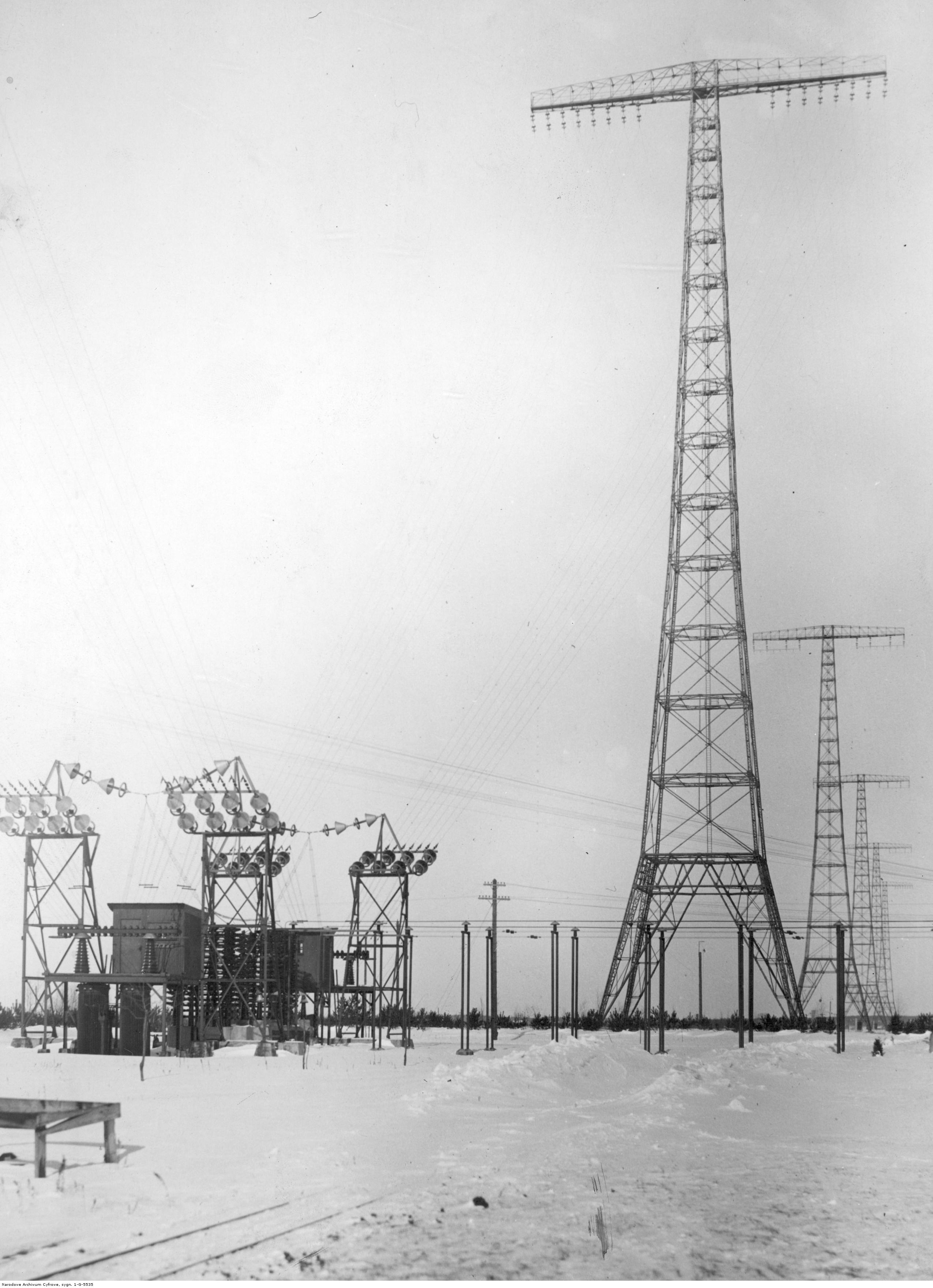 Transaltantic transmitter station in Babice, Poland